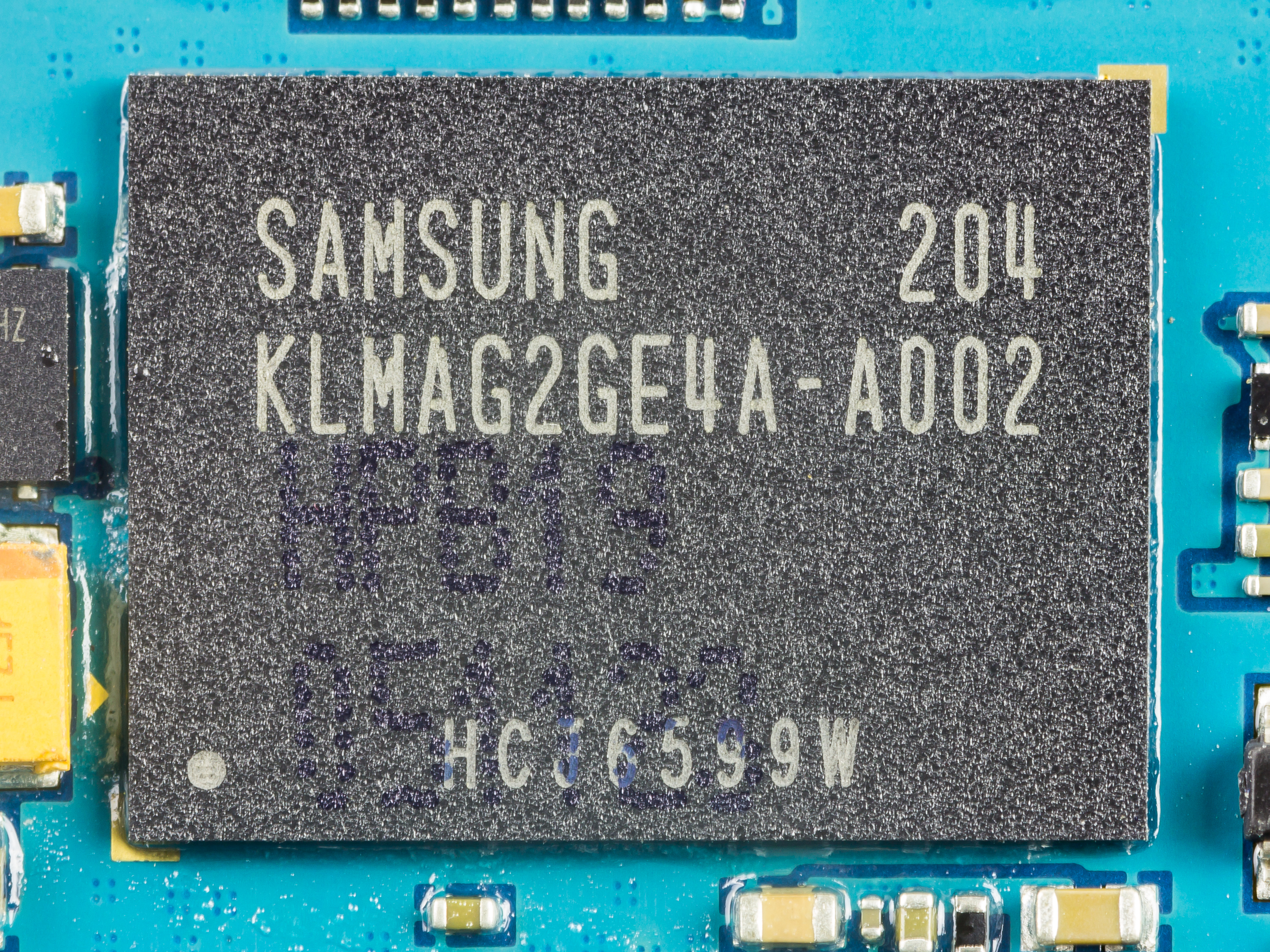 Samsung Galaxy Tab 2 10.1 - Samsung KLMAG2GE4A-A002 - eMMC. Package: FBGA